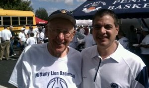 Former Penn State Basketball Alumni Lee Schisler '50, and Chris Roupas '81 enjoy a moment September 10, 2011 at the Penn State Nittany Lion Hoops Club tent prior to the Penn State - Alabama football game.